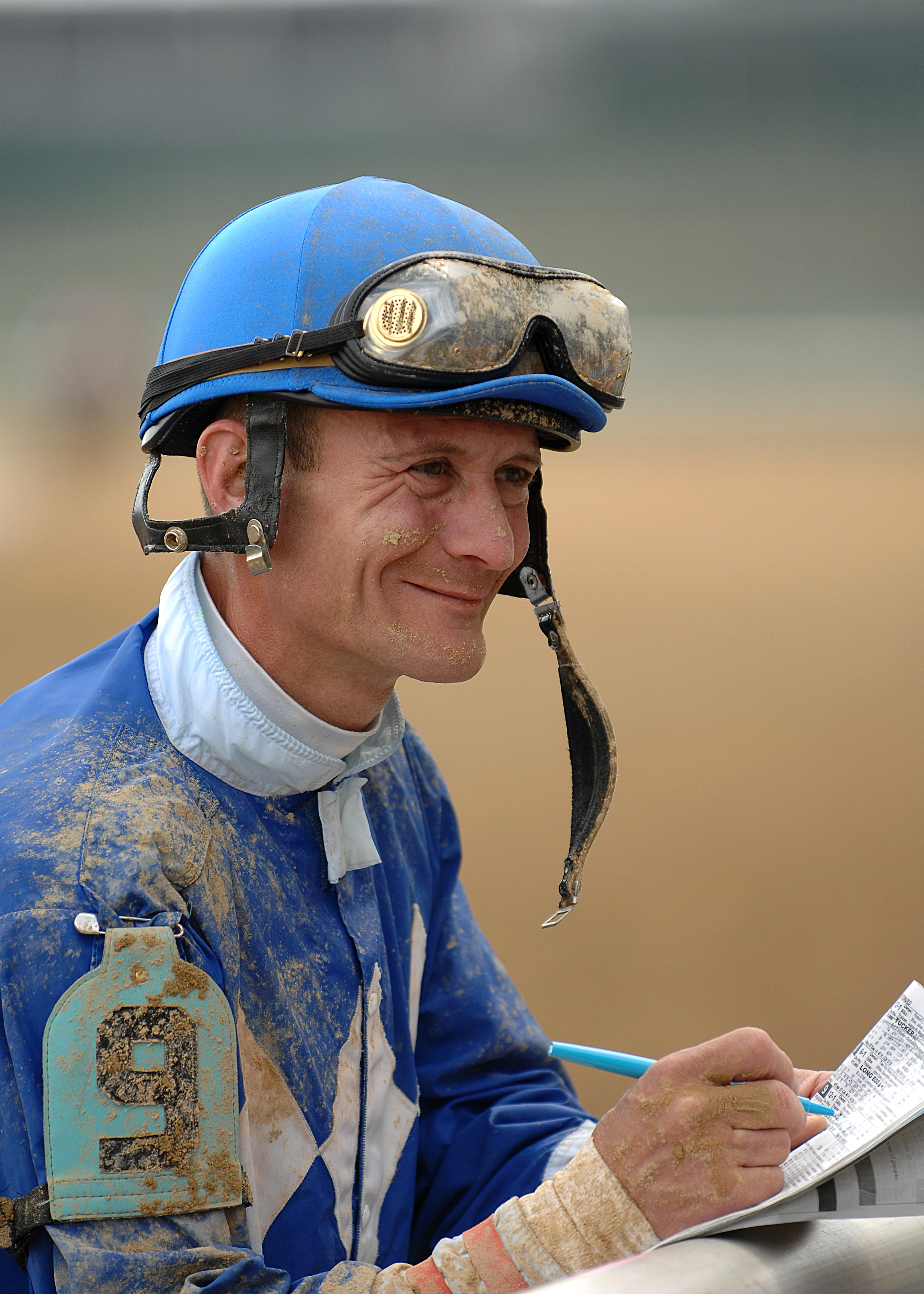 Calvin Borel signing a racing form after a race at Churchill Downs.